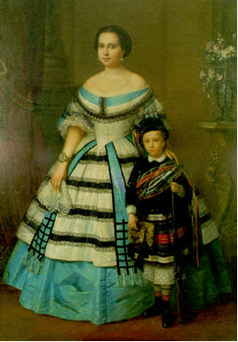 Portrait of a woman and her son